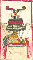 A depiction of the deity Chantico in the Codex Borgia